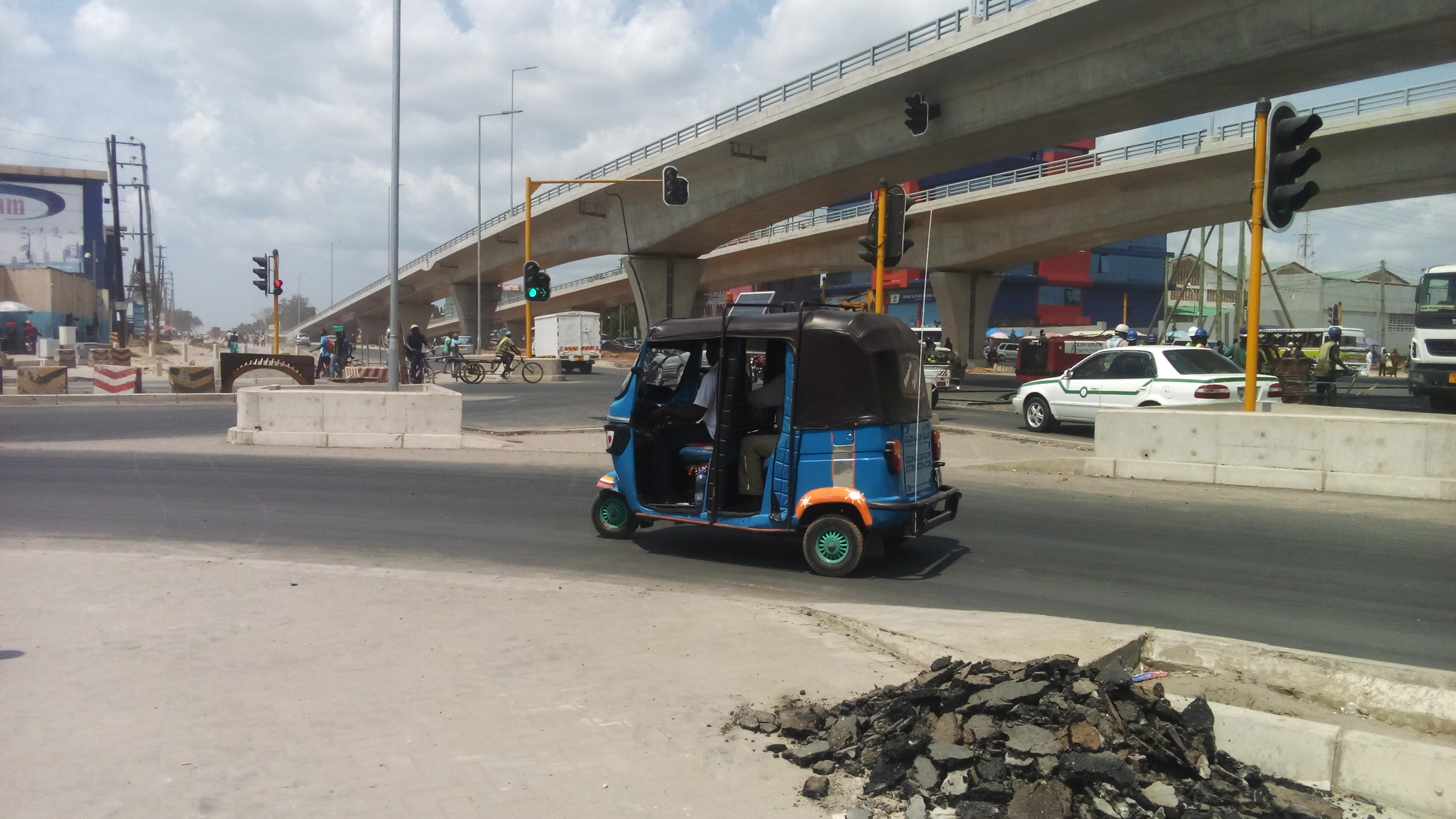 Flickr: This image was originally posted to Flickr by Muddyb Mwanaharakati at (archive). It was reviewed on 2018-09-15 22:02:20 by FlickreviewR 2, who found it to be licensed under the terms of the cc-by-sa-2.0, which is compatible with the Commons. It is, however, not the same license as given above, and it is unknown whether that license ever was valid.